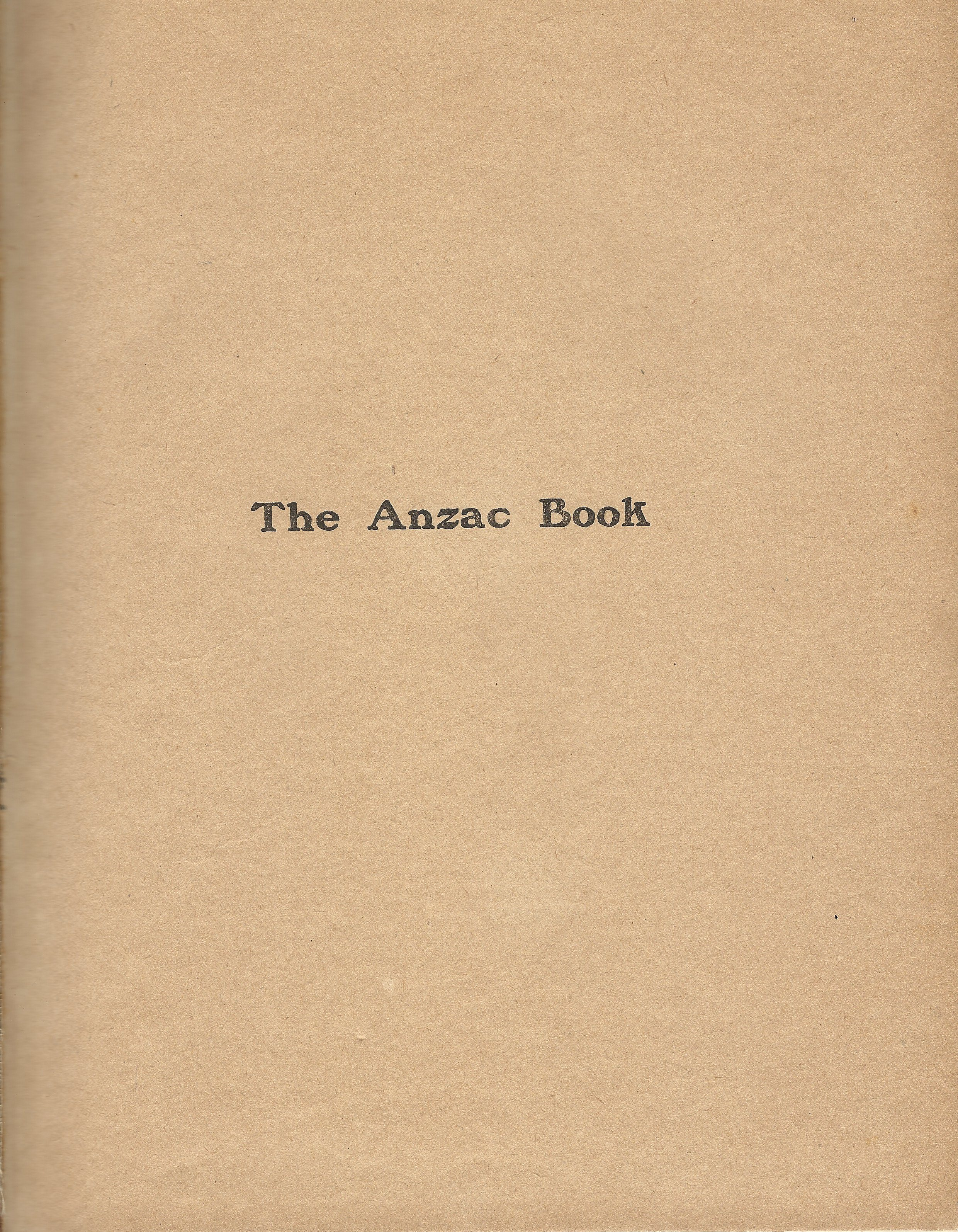 Scan from book "The ANZAC Book", first edition